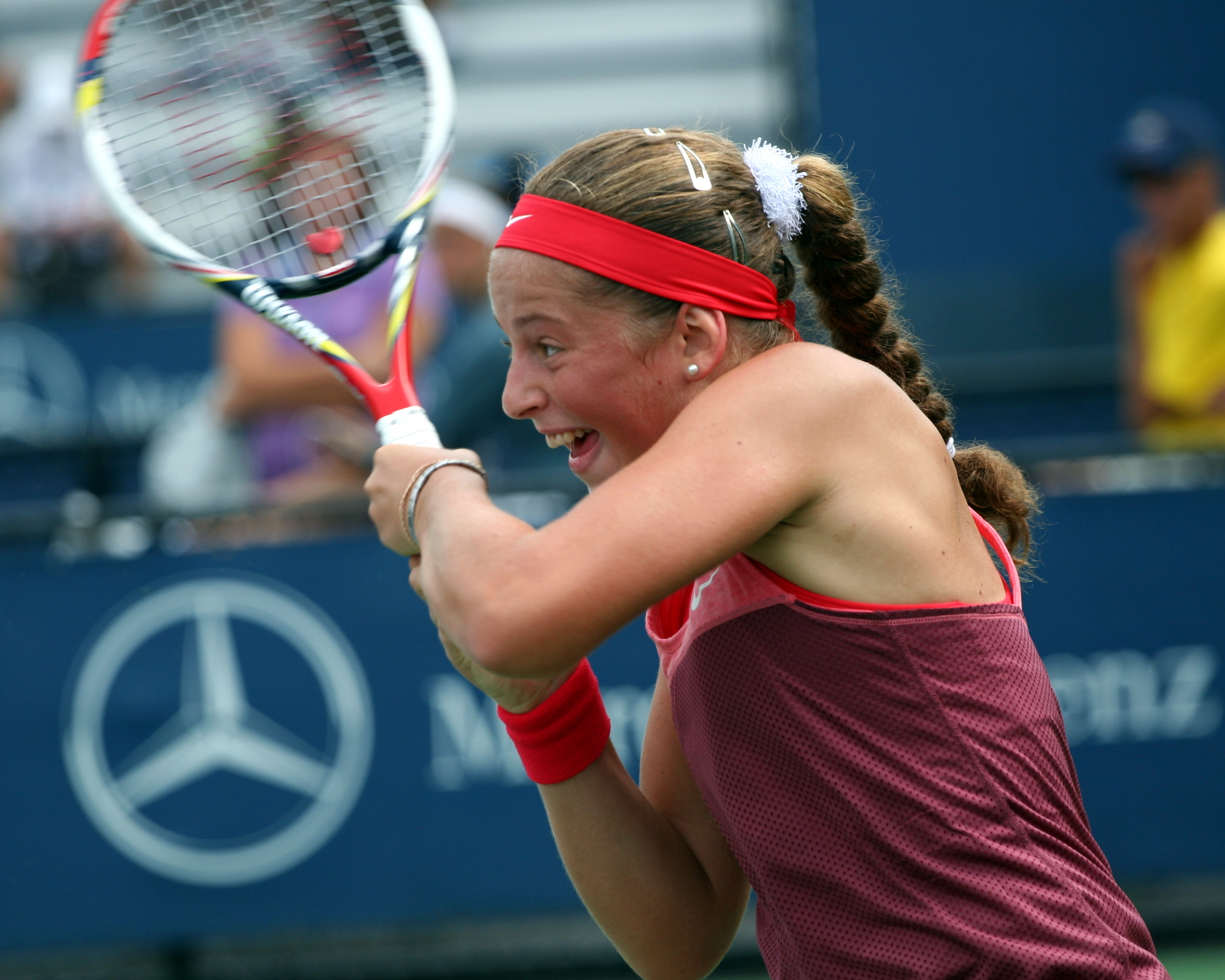 Jeļena Ostapenko at the 2013 US Open